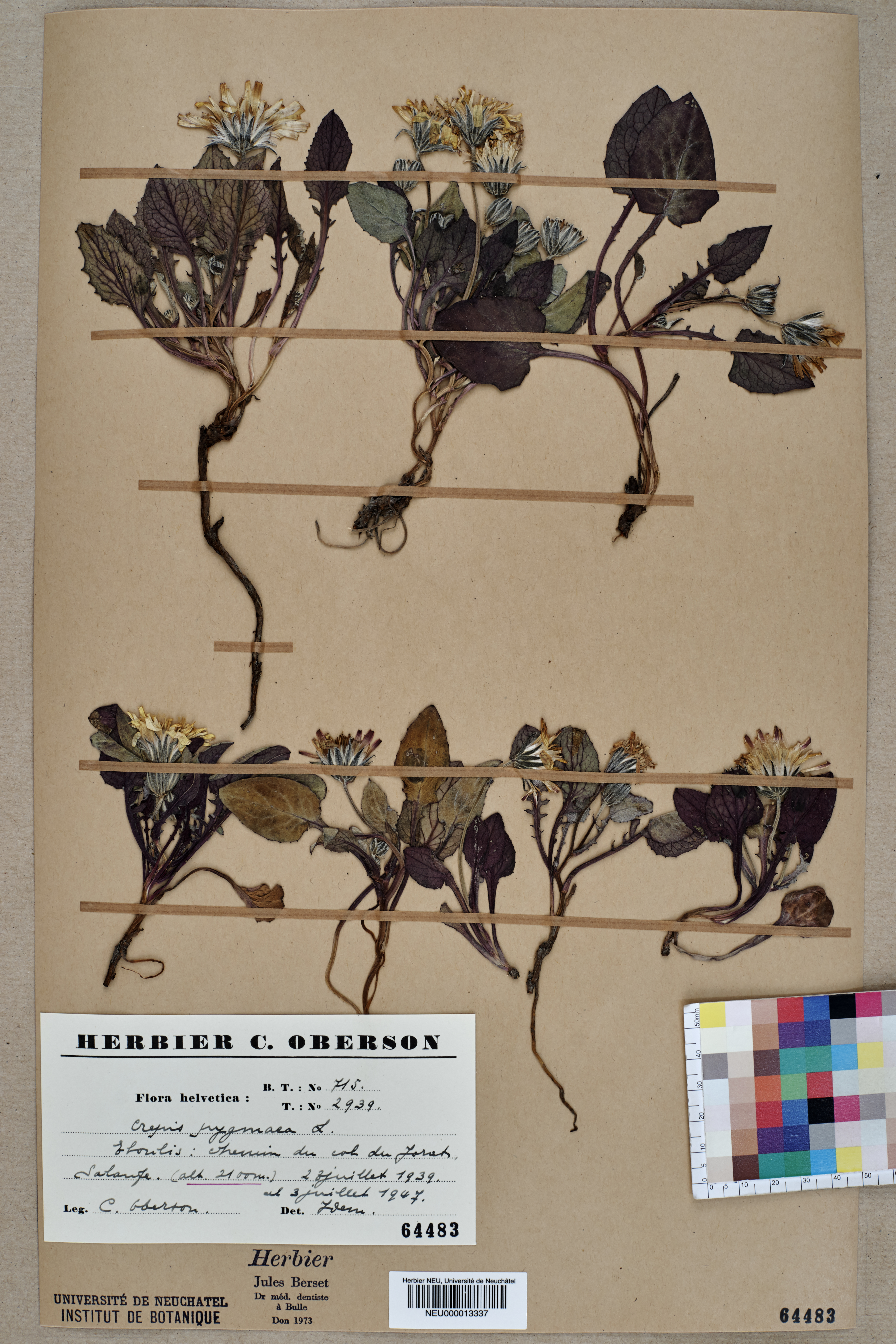 Dried pressed specimen of Crepis pygmaea